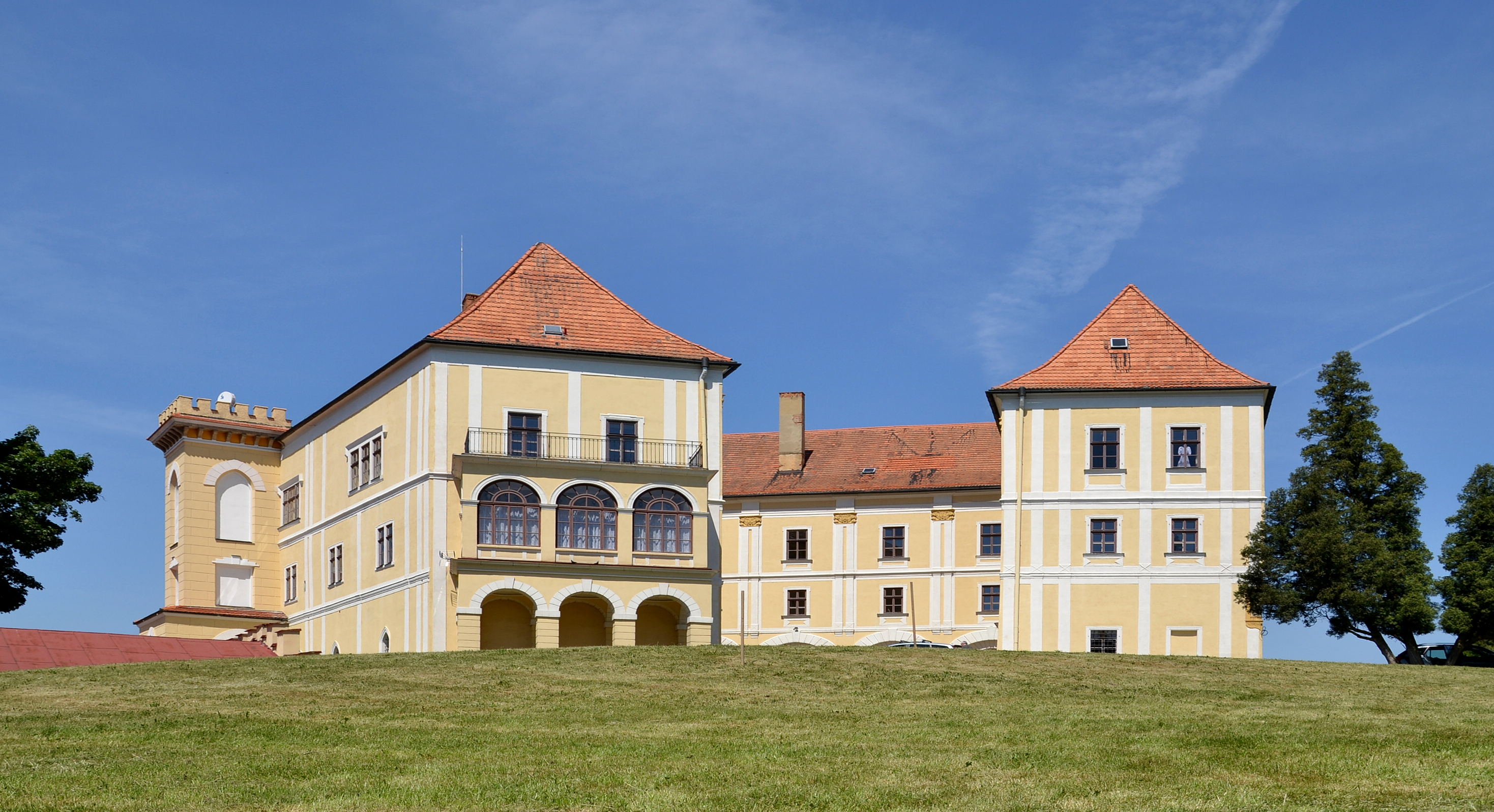 Castle Letovice (lettowitz), Moravia